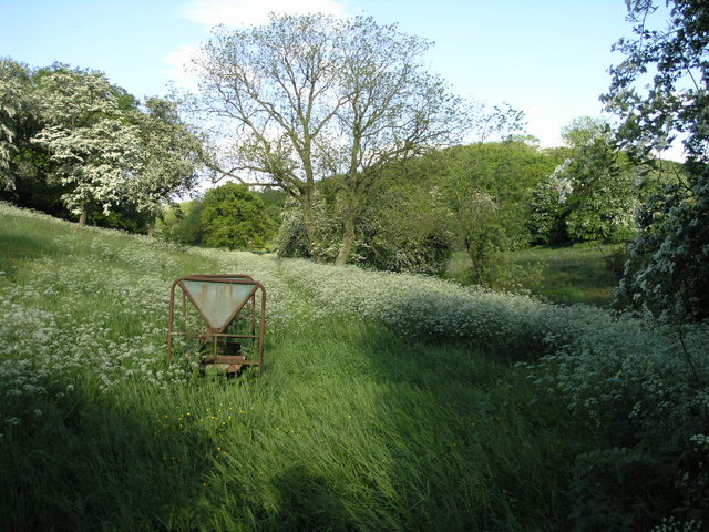 Markland Grips. This deep limestone gorge was once home to a hill fort in the square N&E of this one.